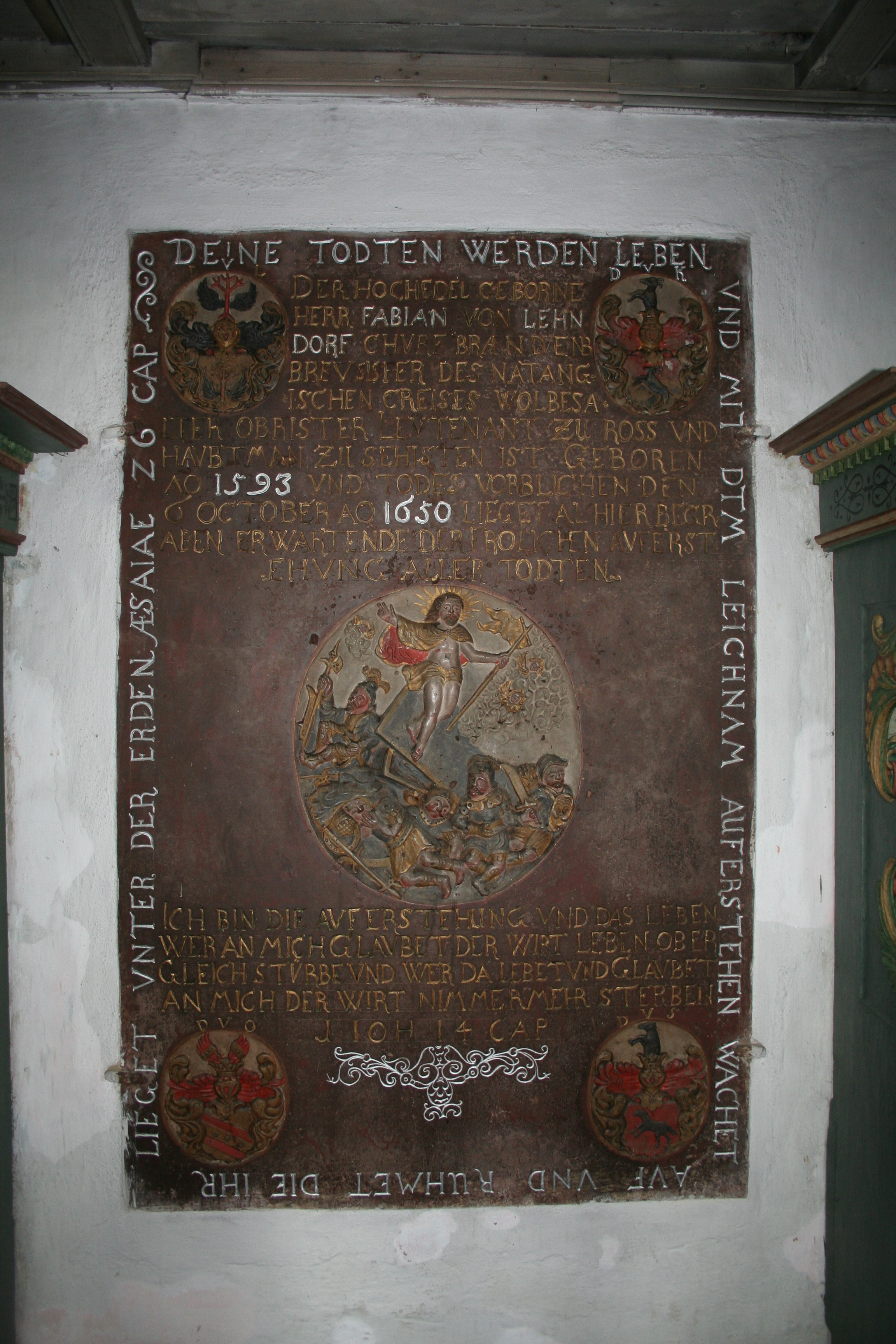 Holy Cross church in Szestno